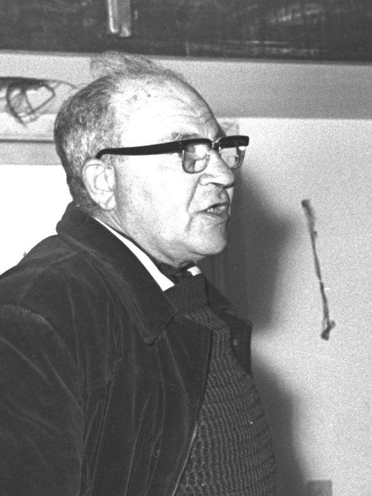 PROF. EVEN ARI OF THE HEBREW UNIVERSITY LECTURING ABOUT AGRICULTURAL PROBLEMS IN THE NEGEV TO MEMBERS OF THE CIRCLE OF FRIENDS OF THE SDE BOKER MIDRASHA SCHOOL.